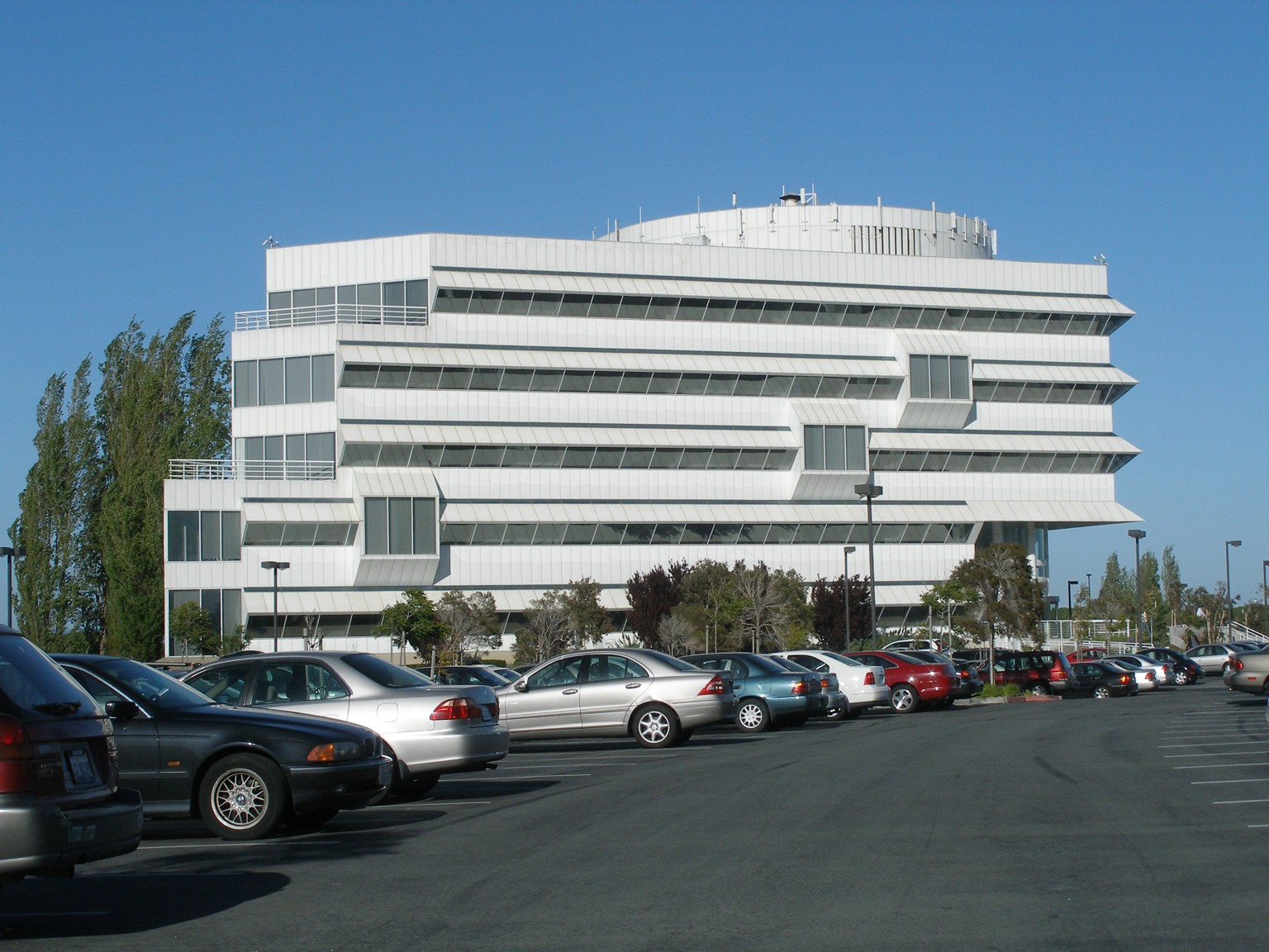 The Dakin Building in Brisbane, as viewed from the parking lot on a sunny spring afternoon. It is currently the headquarters of , Wal-Mart's e-commerce operation.